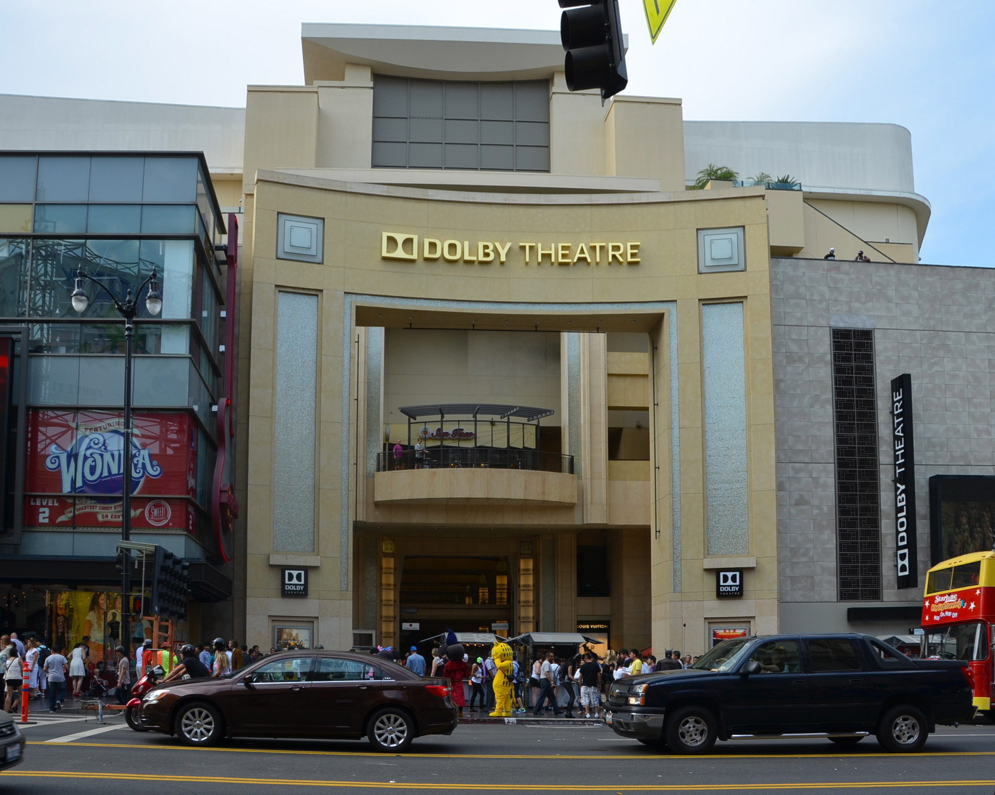 Dolby Theatre, formerly Kodak Theatre, Hollywood Boulevard, Hollywood, CA.